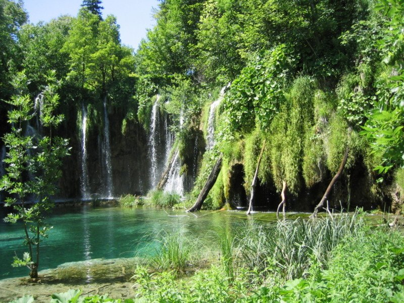 Plitvice nationalpark summer 2005. Picture: Tomi Nieminen